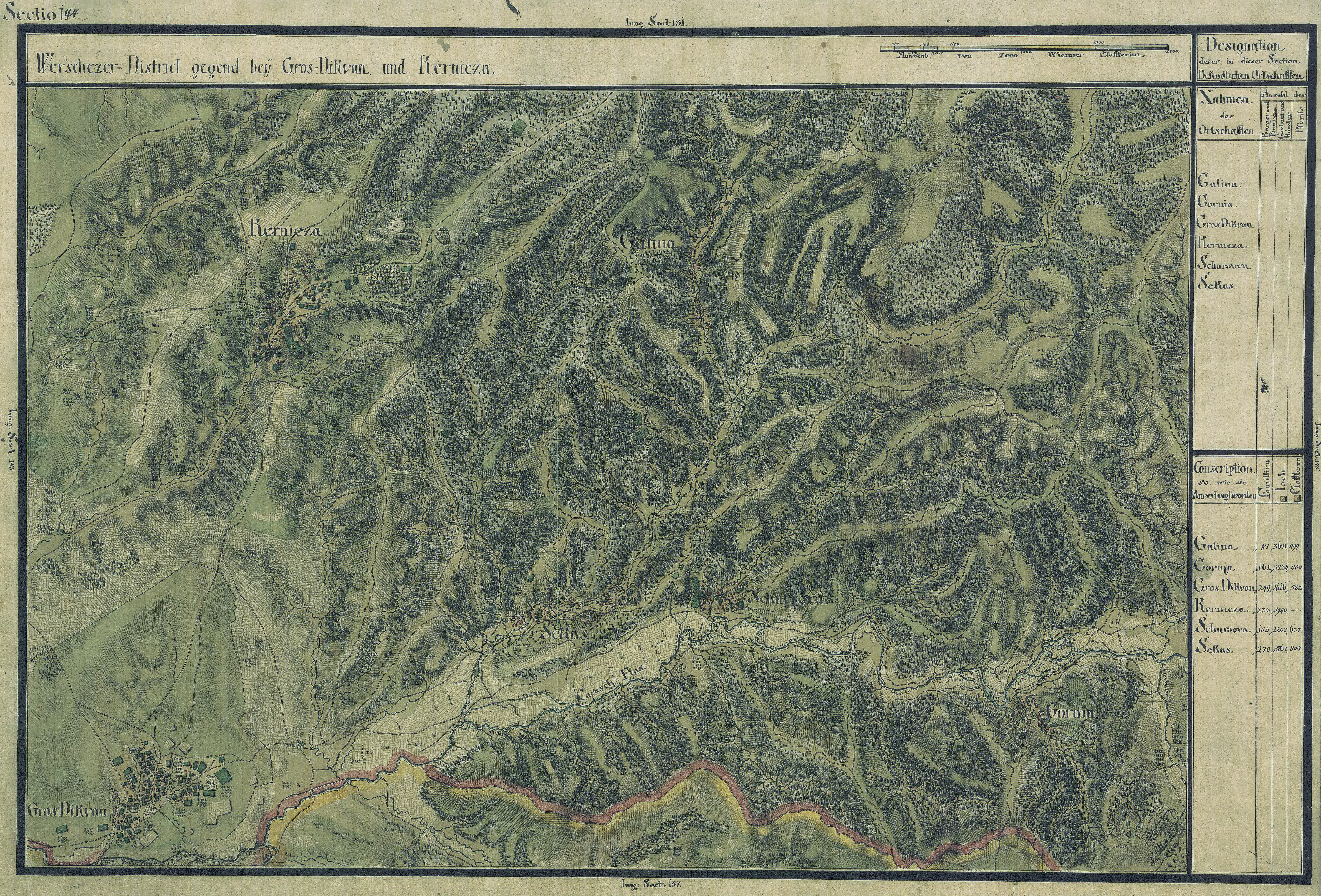 The Banat region in the cadastral maps: Josephinische Landesaufnahme, 1769-72. Josephinische Landaufnahme pg144